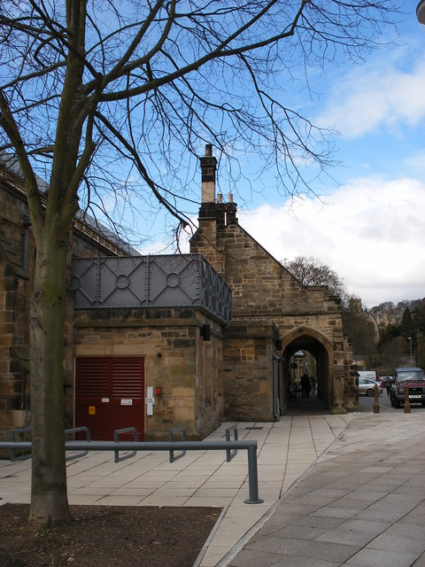 Richmond railway station, Richmond, Richmondshire in North Yorkshire